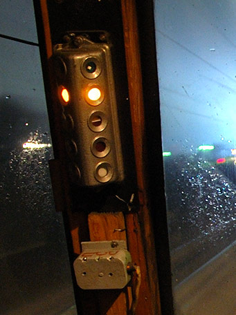 Yellow light of locomotive signalisation, electric locomotive VL60PK, Russia